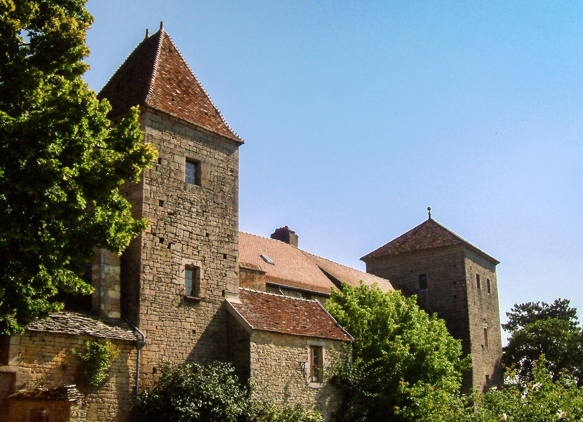 Gevrey-Chambertin castle, Côte-d'Or, France.